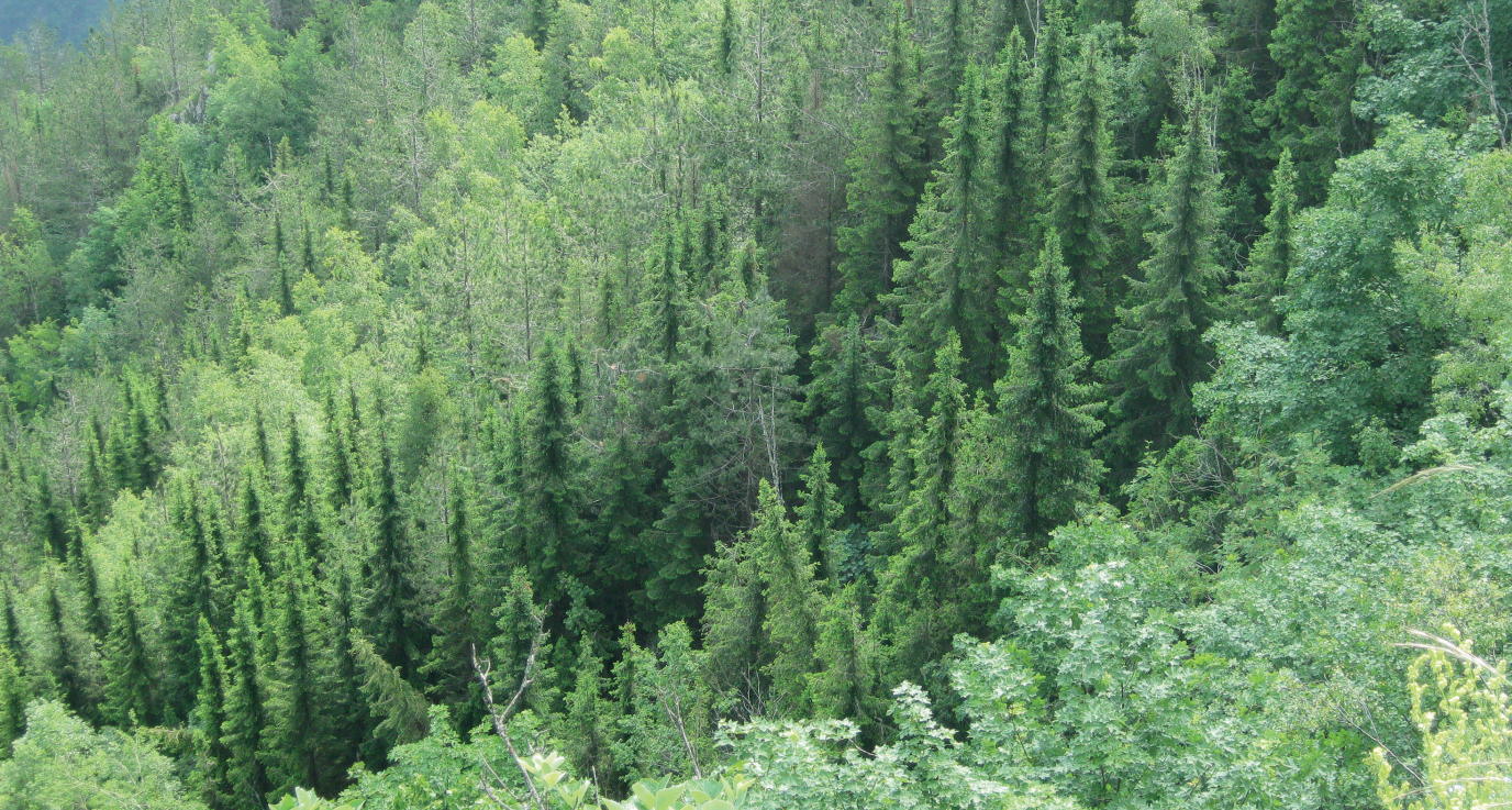 Serbian Spruce Picea omorika, natural forest in Bosnia Herzegovina.